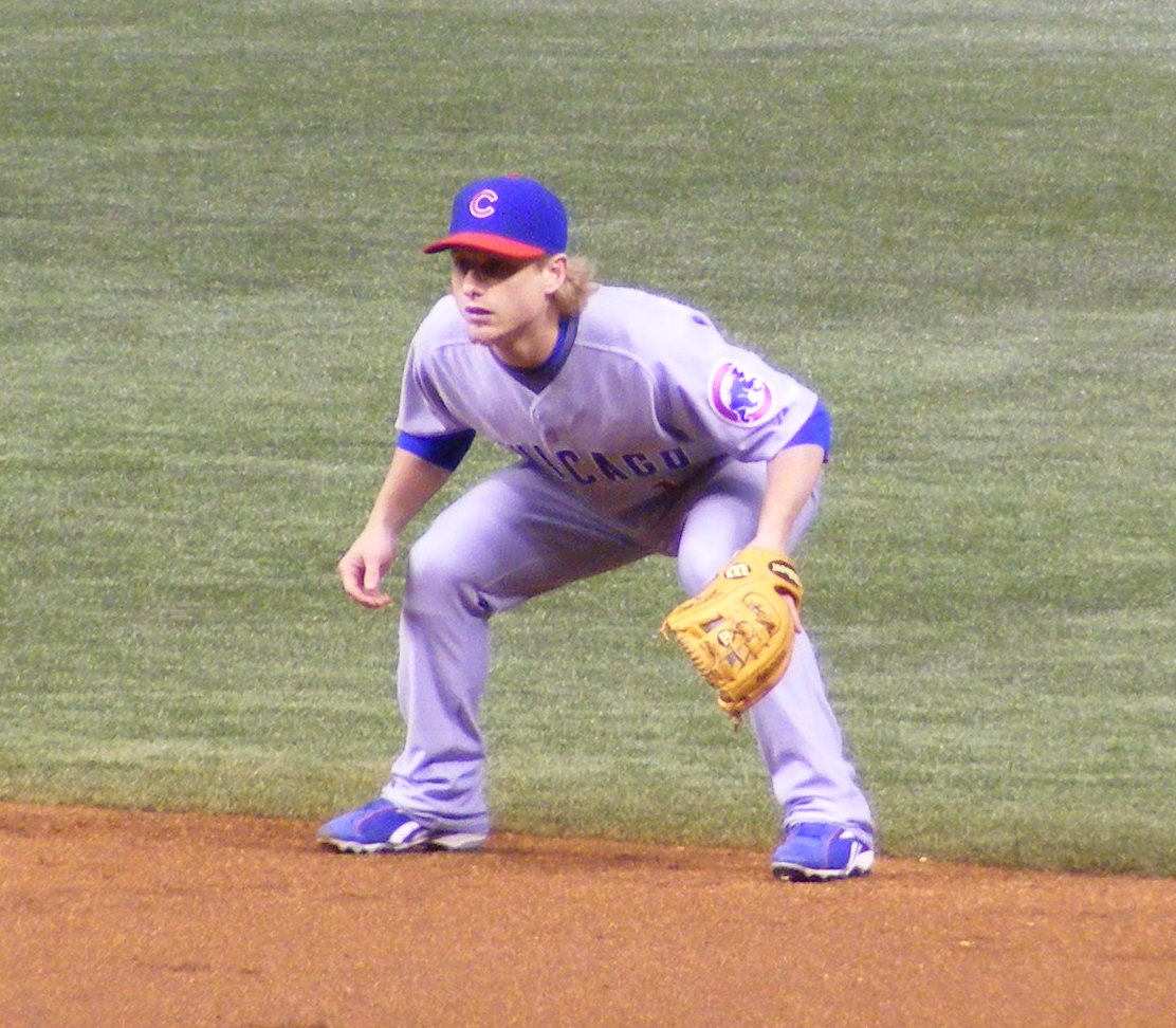 Mike Fontenot at second base during a game against the Rays at Tropicana Field in 2008.